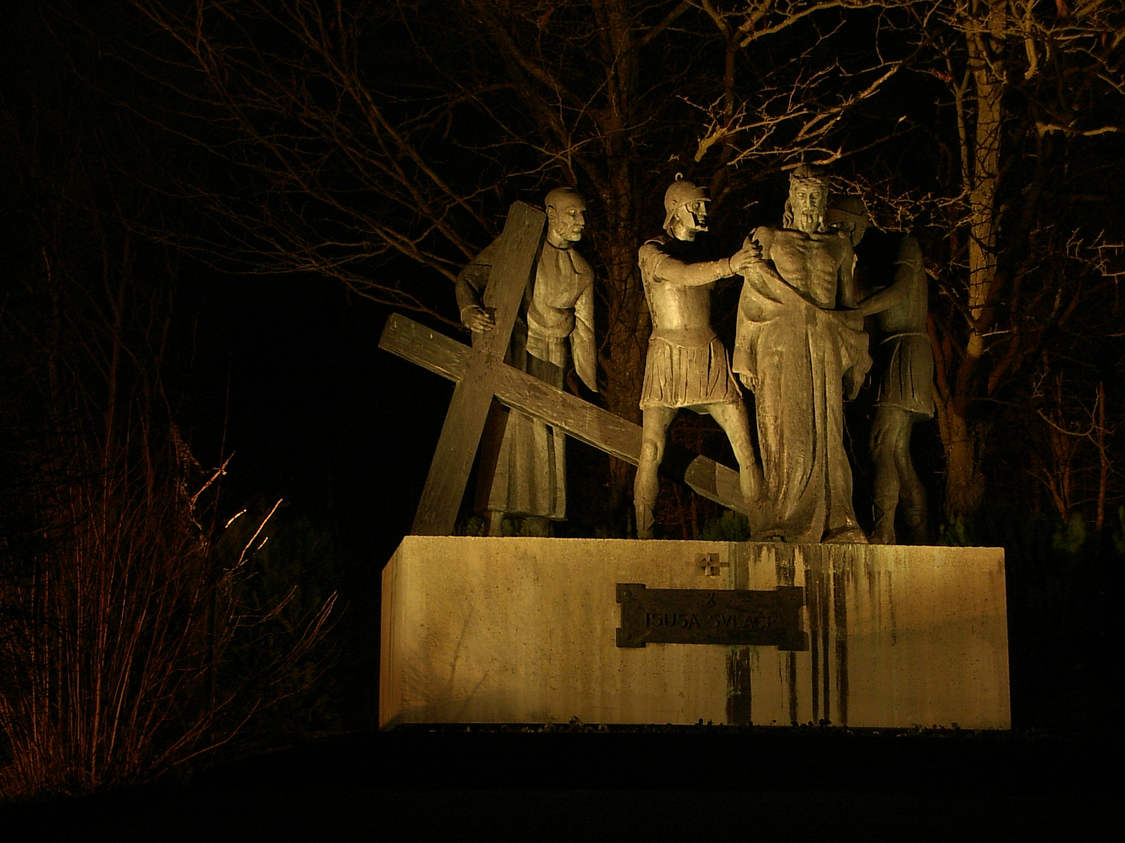 10th station of Way of the Cross in Marija Bistrica